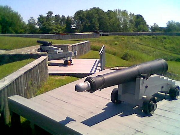 12 pounder and carronade.